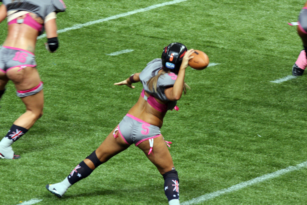 Lingerie Football League All-Star Games Tour match at Allphones Arena, Sydney.